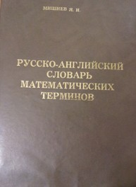 This is my photo of book “Russian-English Dictionary of Mathematical Terminology” by Yagutil Mishiev.